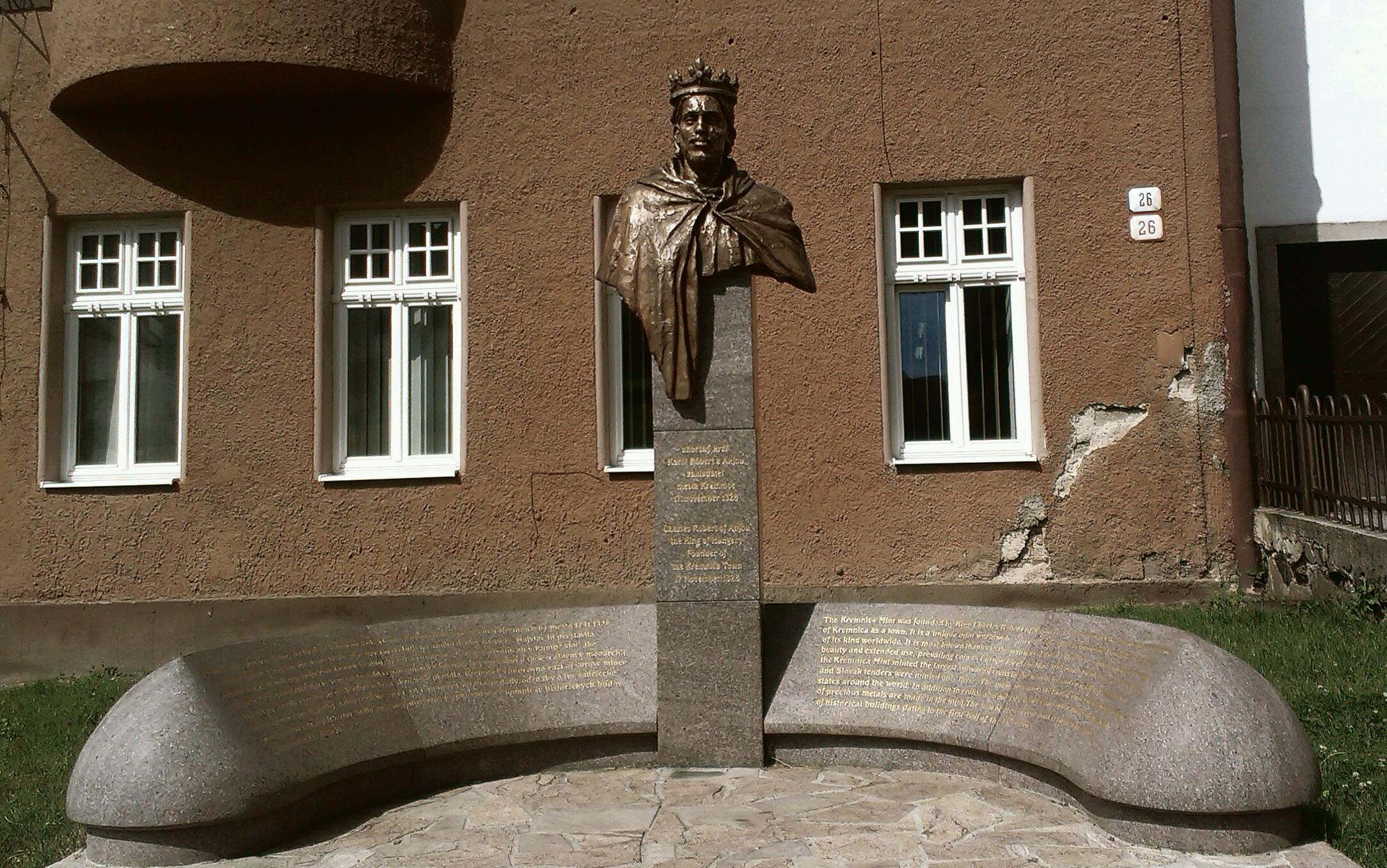 The statue of Karol Robert of Anjou was revealed on the occasion of the inclusion of Kremnica Mint into European Heritage Label.